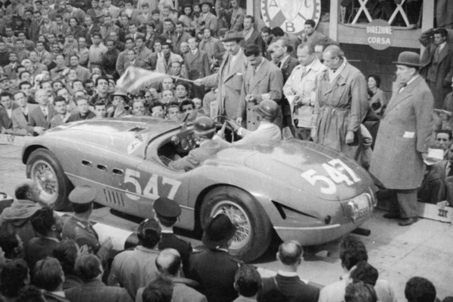 Entry #547 and WINNER of Mille Miglia on 25–26 Aprile 1953 was Giannino Marzotto and co-driver Marco Crosara in the 1953 Ferrari 340MM Vignale Spyder s/n 0280AM